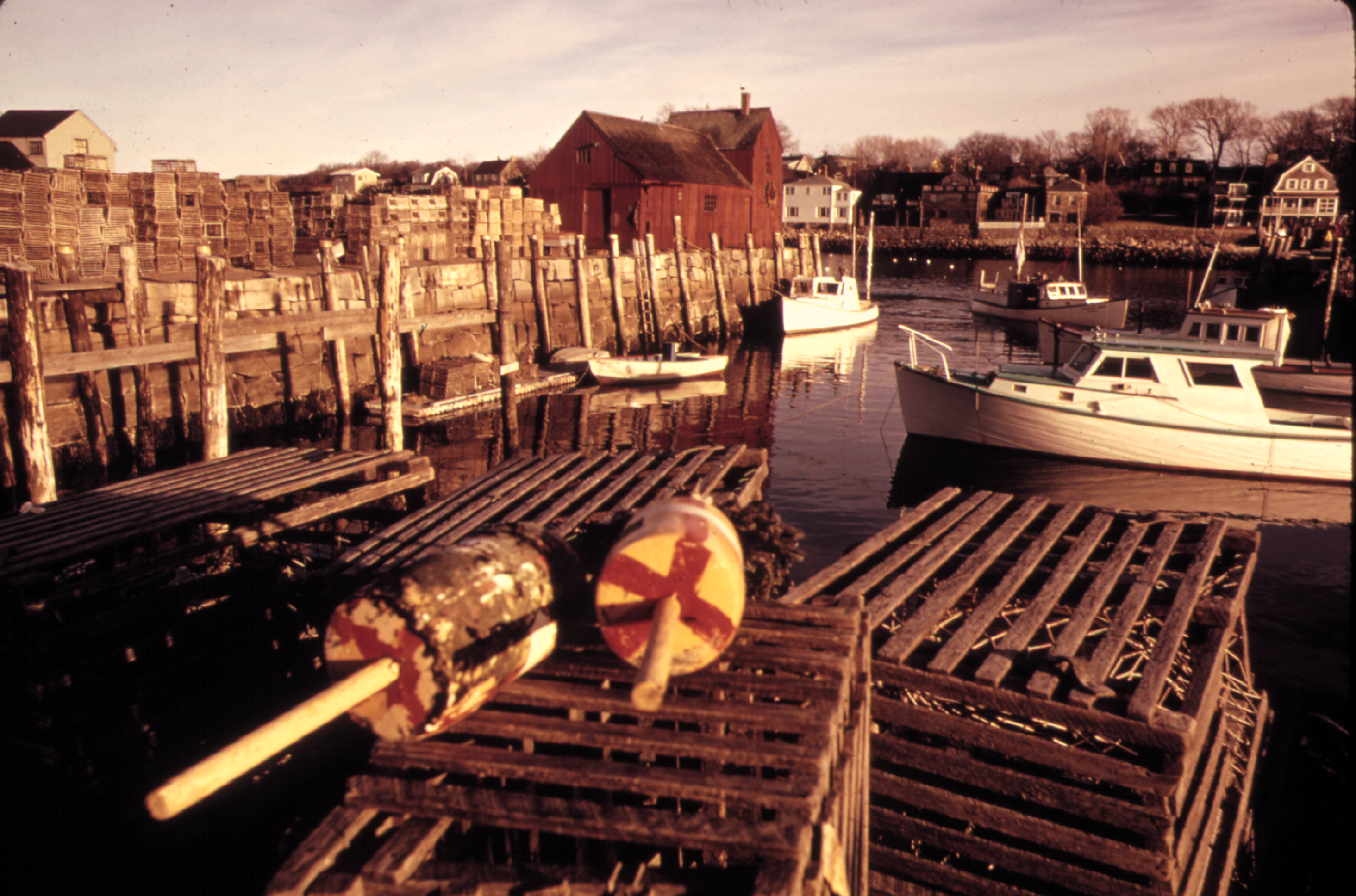 ROCKPORT HARBOR LOBSTER POTS AND BUOYS